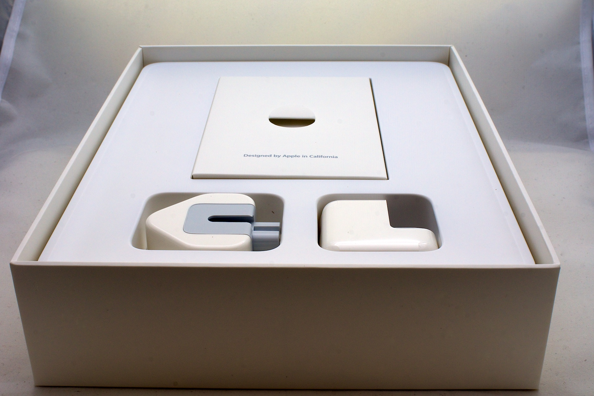 The box contents of the 3rd generation iPad.